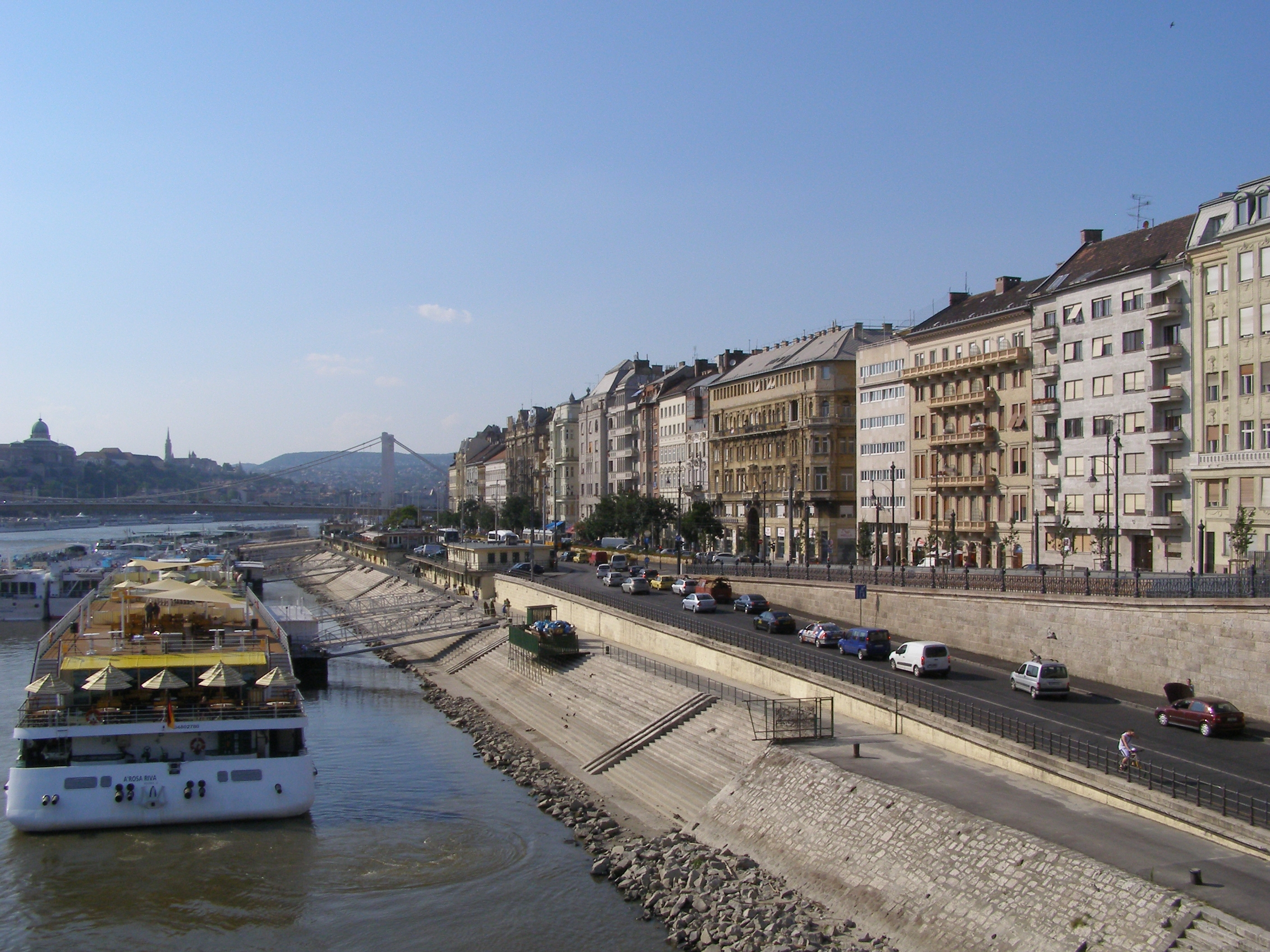 Budapest - the Danube bank in the Belvaros district